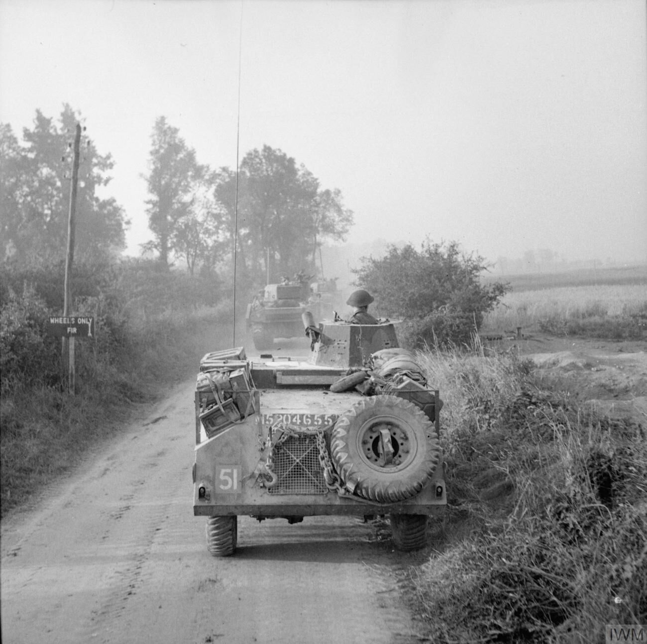 A Morris light reconnaissance car and, in the background, Sherman Crab flail tanks move up to the battle area for Operation 'Goodwood', 18 July 1944.